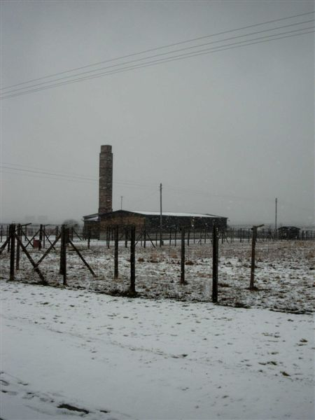 Majdanek - building